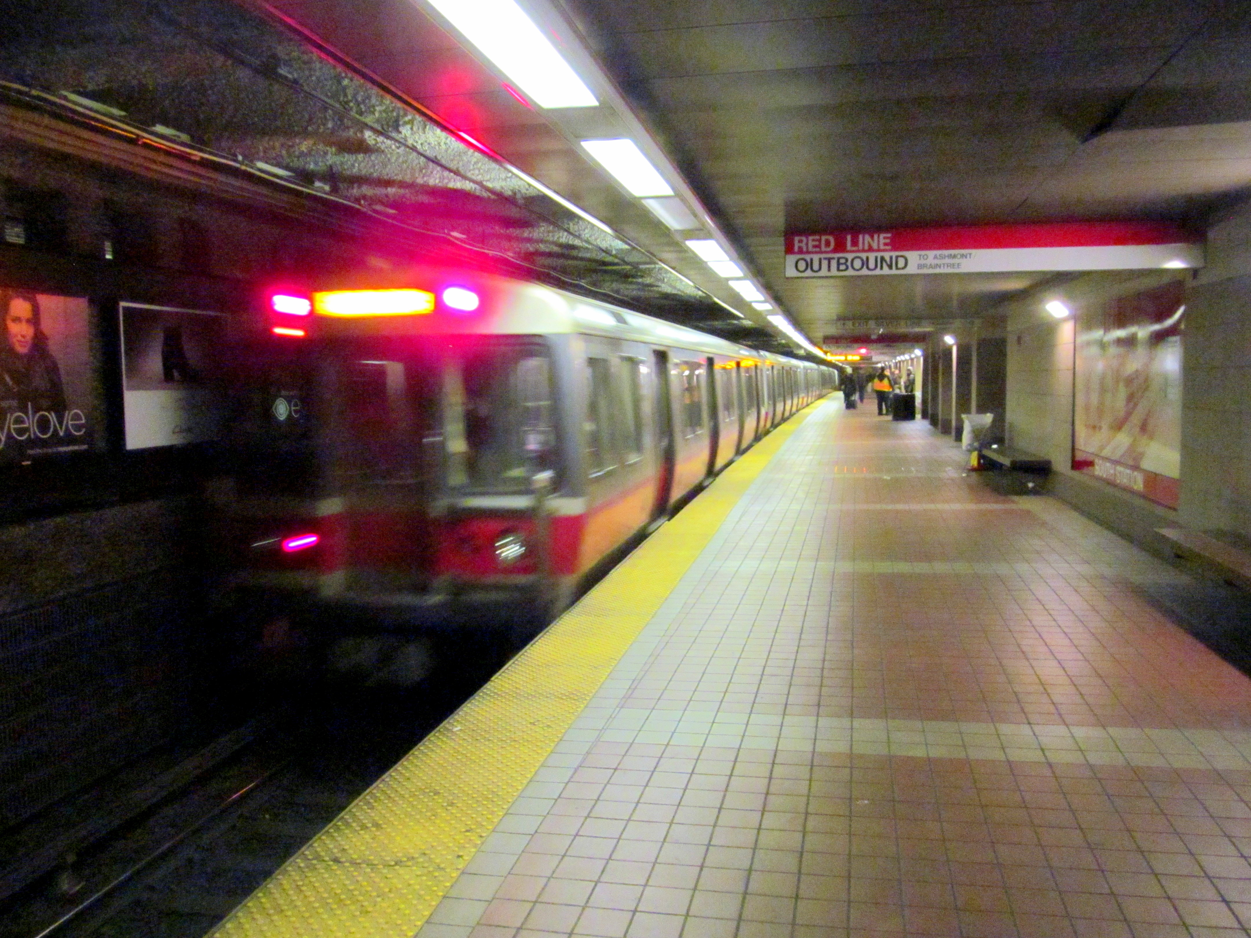 An outbound Red Line train leaves South Station (Under) on December 3, 2016, the 100th anniversary of the station's opening